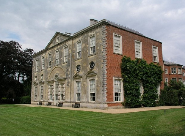 Claydon House in Middle Claydon, south-western aspect